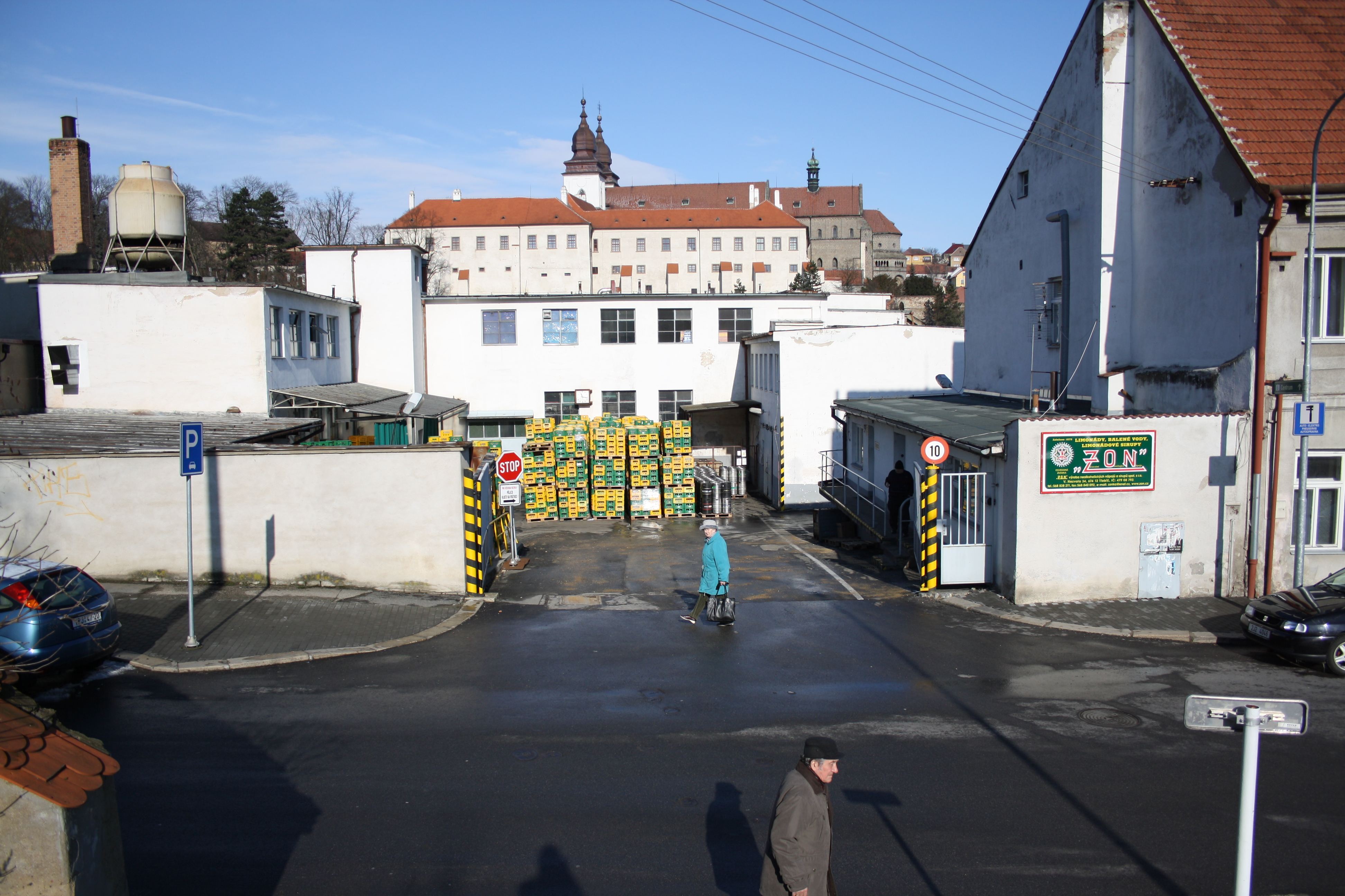 ZON factory to produce lemonade in Třebíč, Stařečka.